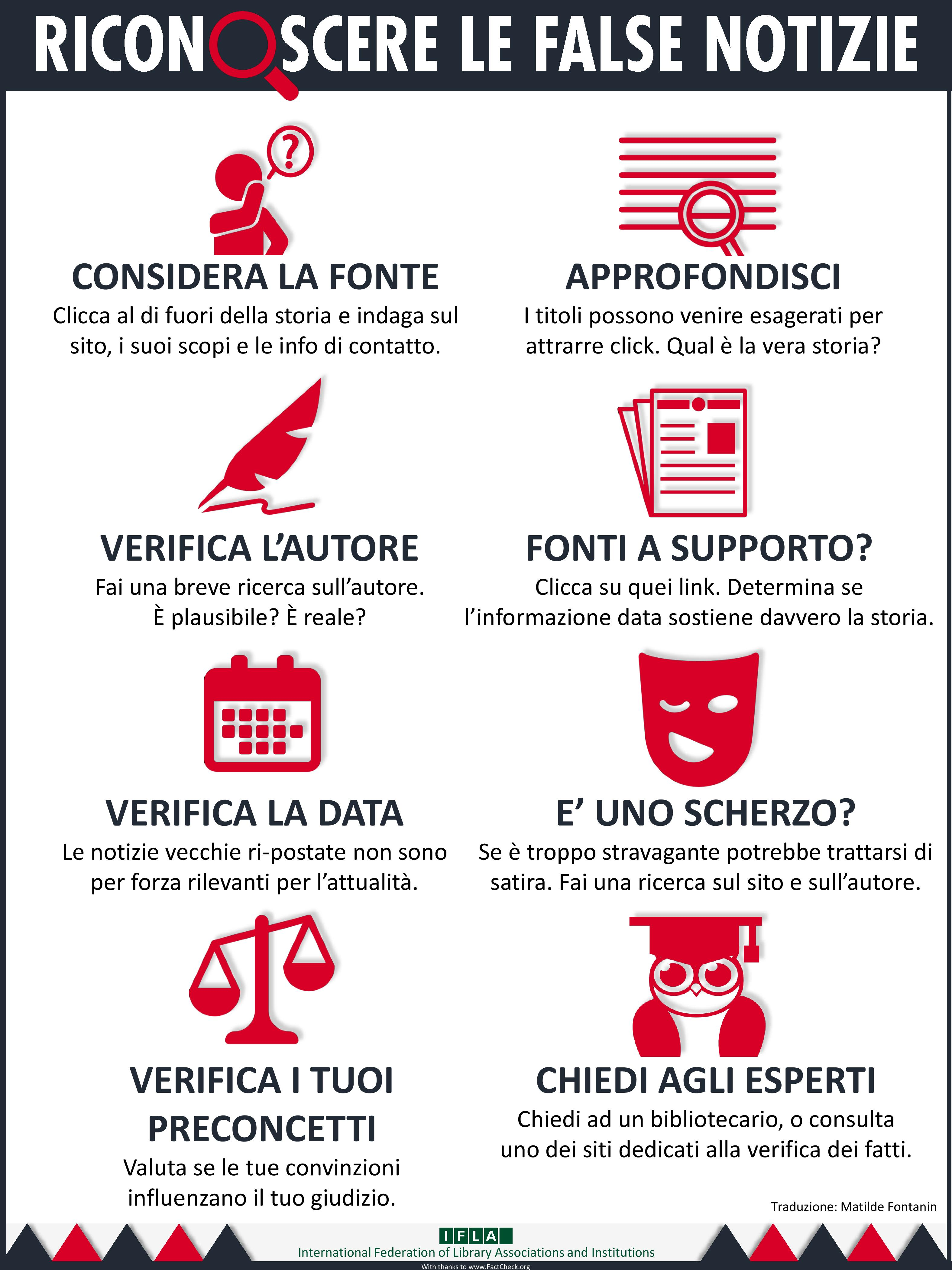 Italian translation of IFLA infographic based on ’s 2016 article "How to Spot Fake News" in JPG format.